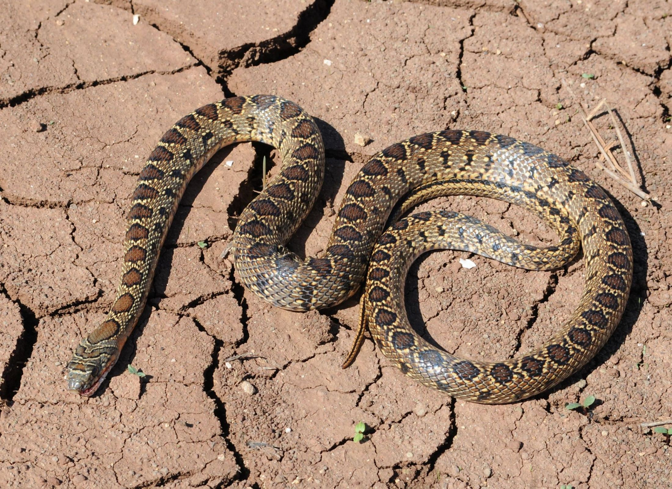 Hemorrhois hippocrepis (Hufeisennatter). Found dead, 3 km north of Zahara de los Atunes, Prov. Cadiz, Southern-Spain